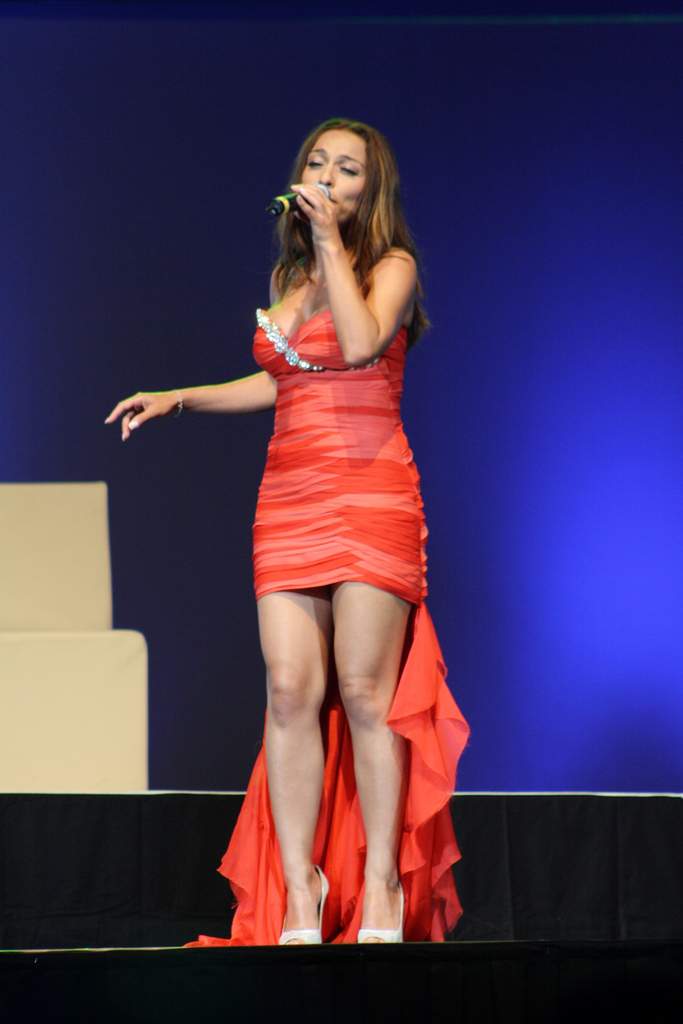 Ziynet Sali, during the 14th International the Shining City Akçakoca Culture and Turism Fest, in AkçakocaTürkçe: Ziynet Sali, Akçakoca'da düzenlenen 14. Uluslararası Parlayan Kent Akçakoca Kültür ve Turizm Festivali sırasında.